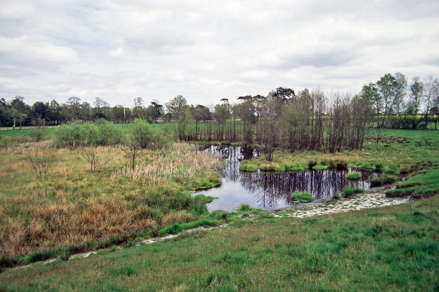 Pool near Bötersheim, district Harburg, northern Lower Saxony, Germany.